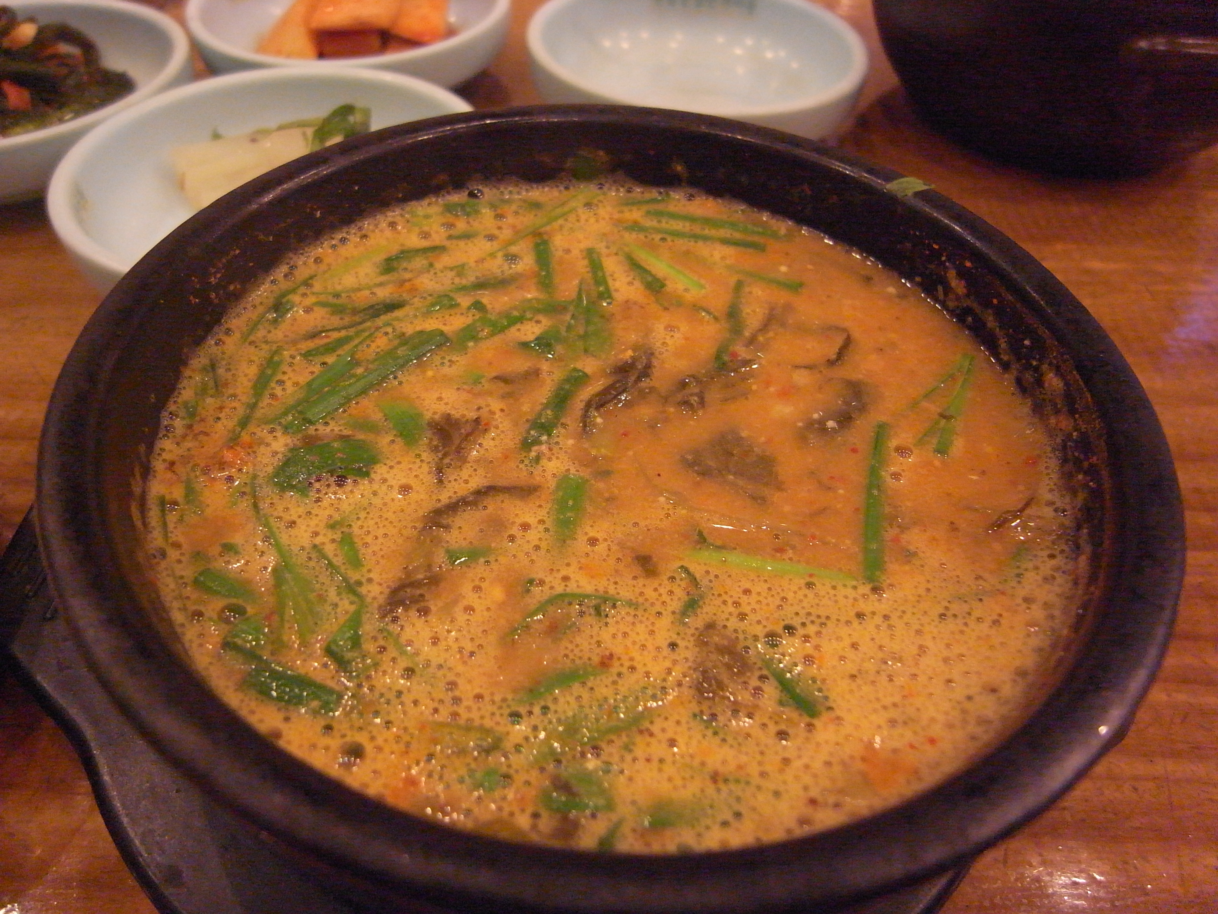 Chueotang, made from Misgurnus mizolepis, Misgurnus anguillicaudatus in Korean cuisine